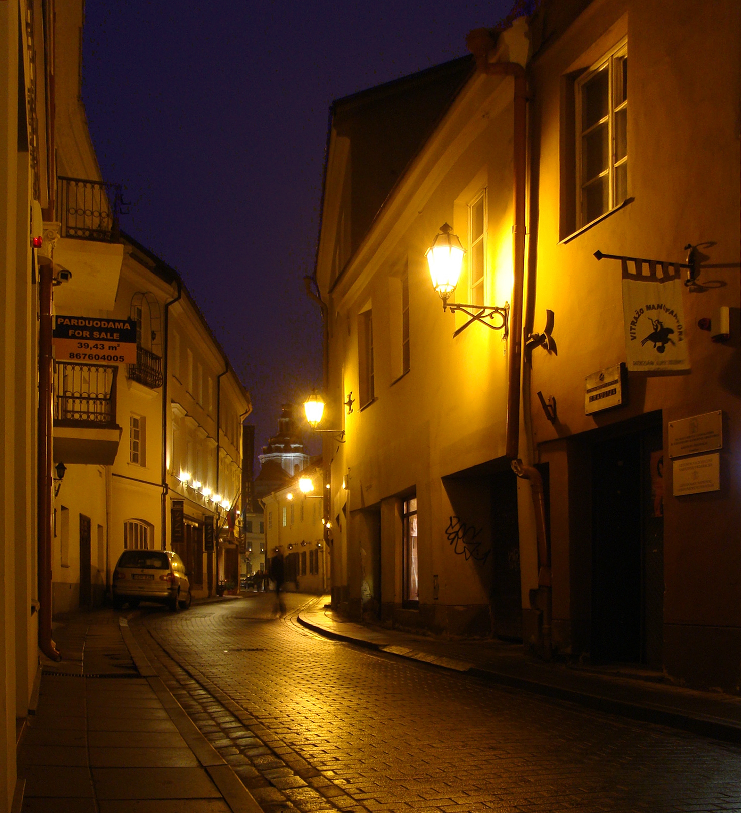 Old Town Stikliu street at night. Vilnius Lithuania. This image is photoshoped by GIMP.